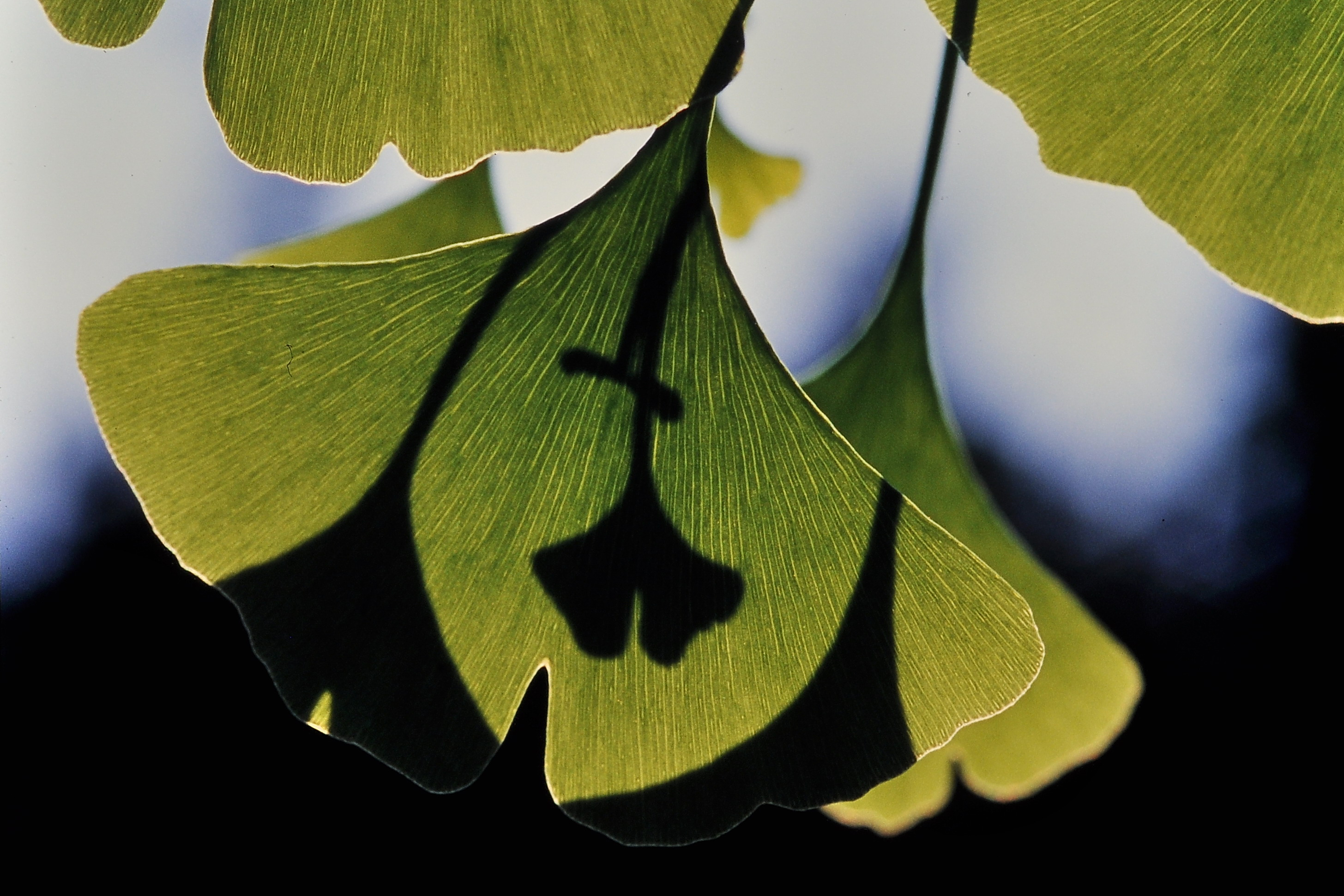 Summer leaves of Ginkgo biloba